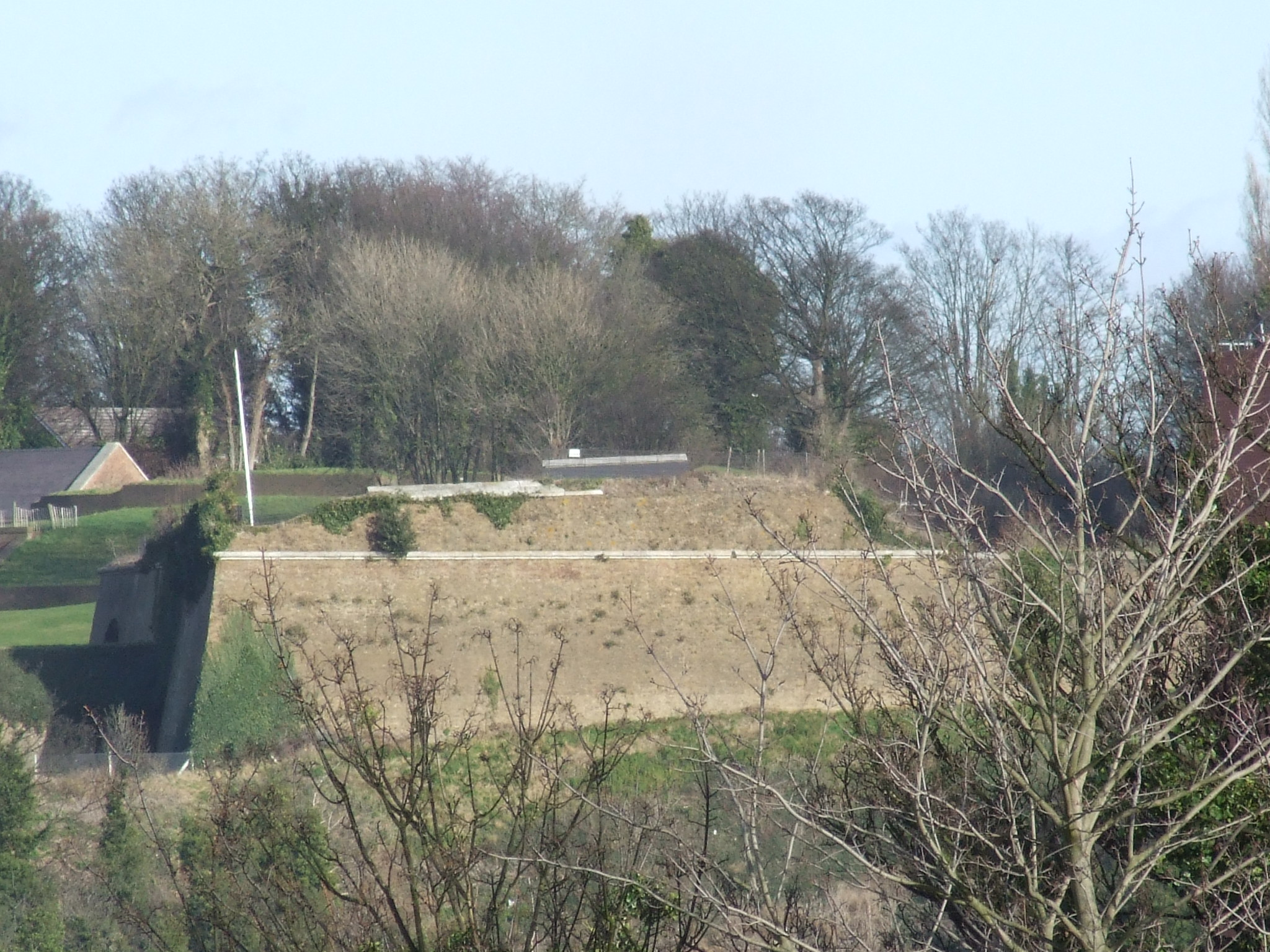 Taken with a long lens from Fort Pitt, Chatham Fort Amherst, Chatham.